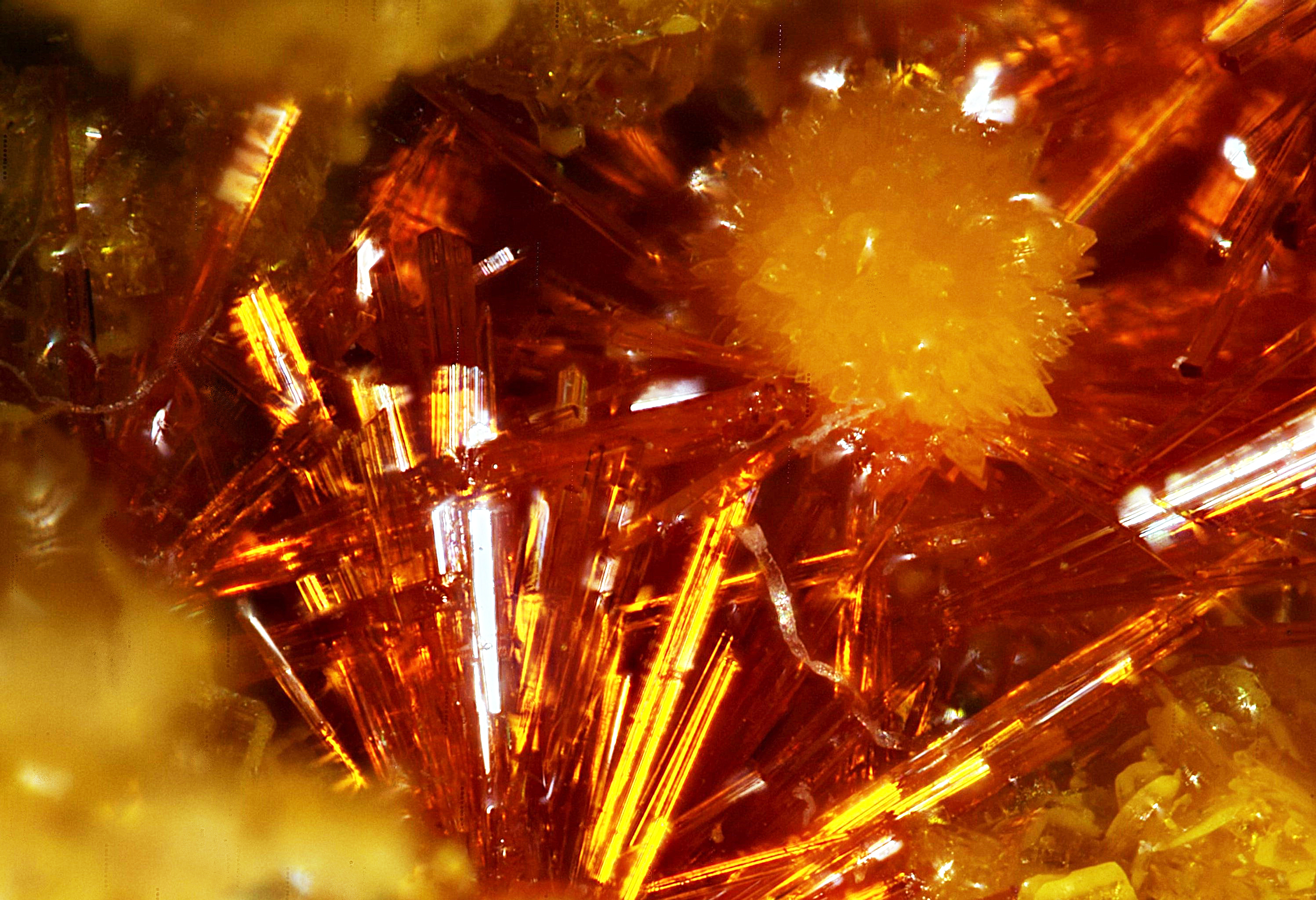 Needles of curite from Shinkolobwe, DRC (possibly with orange-yellow Billietite(?))